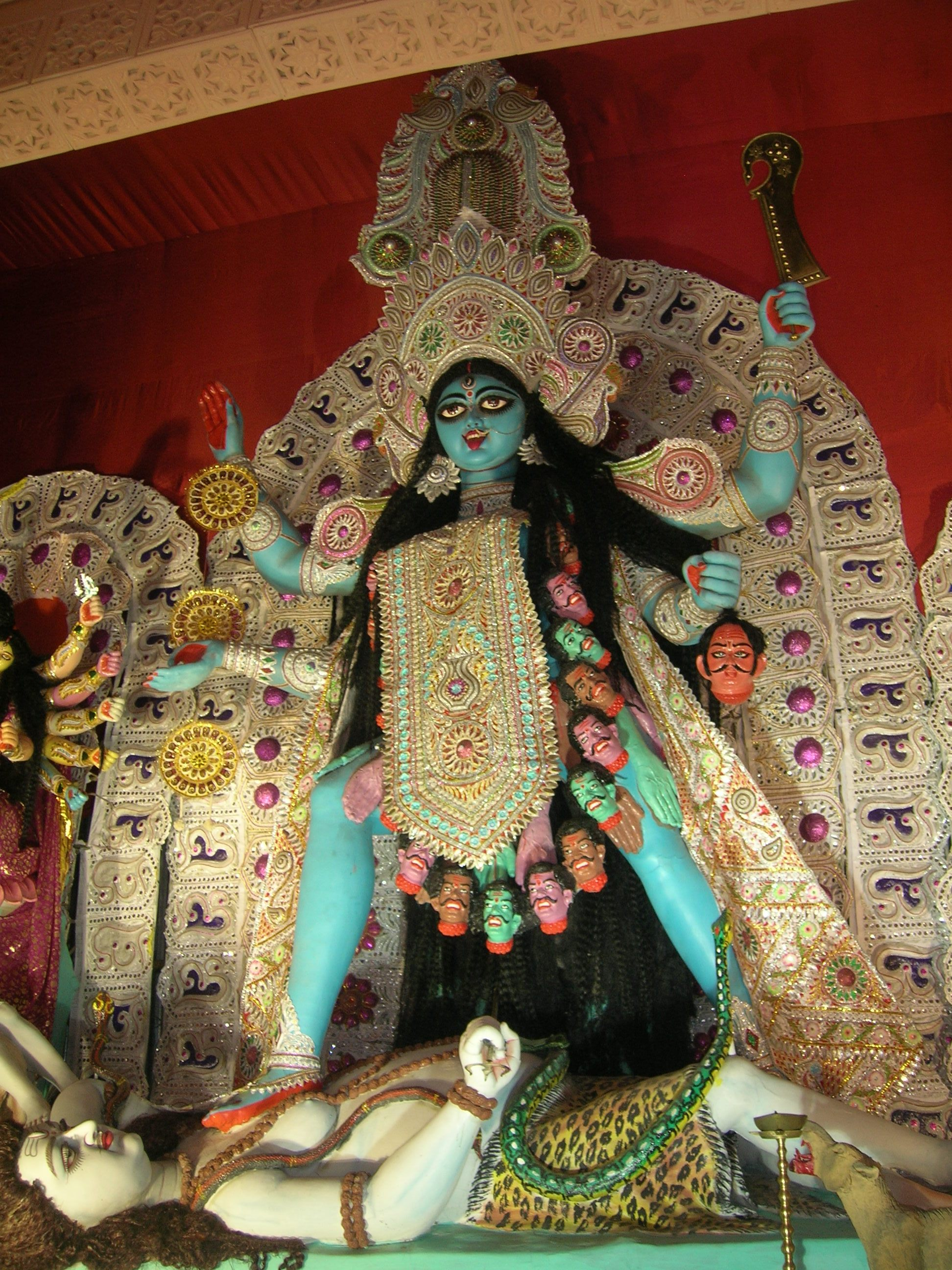 Dakshina Kali at All Youth Friends' Club, Shakespeare Sarani, Kolkata.